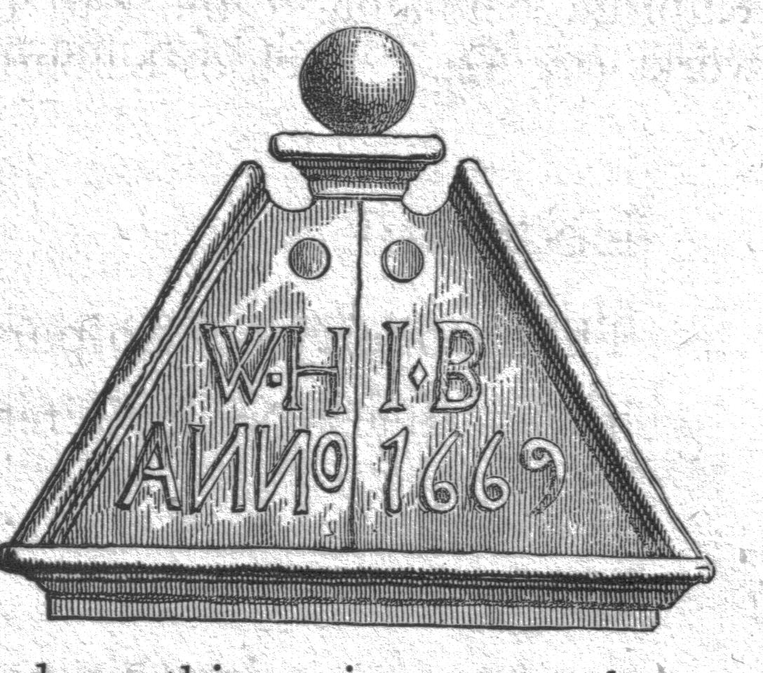 Pediment Stone from Ladyland Castle inscribed 1669 W.H.I.B. Kilbirnie, North Ayrshire, Scotland; now built into the walled garden at Ladyland stables